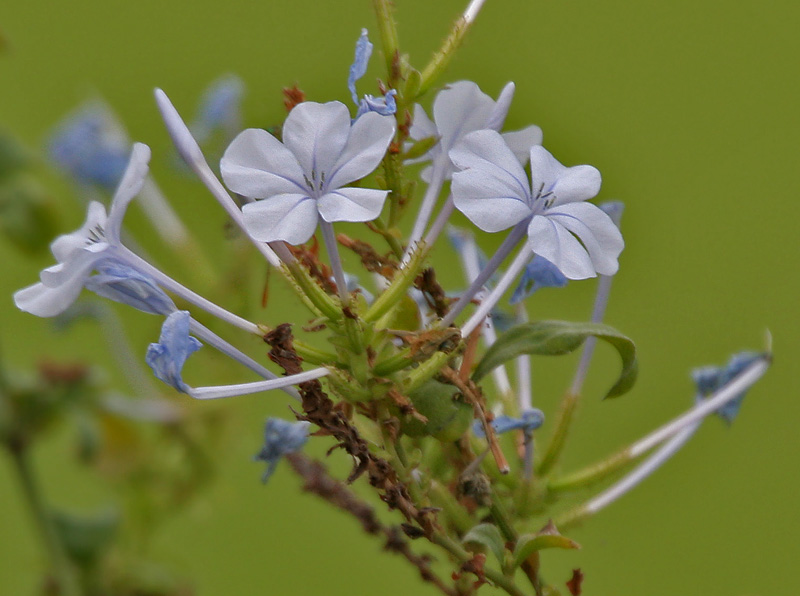 Skyflower, Neela Chitramoolam, Blue-flowered Plumbago or Cape Leadwort Plumbago auriculata in Hyderabad, India.